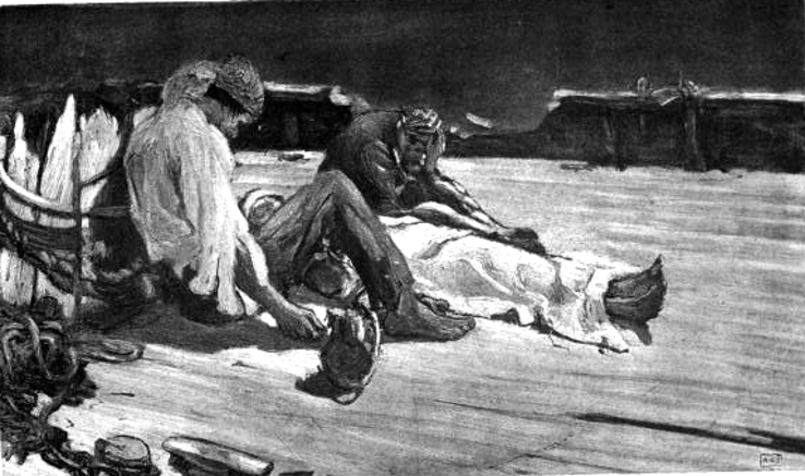 Illustration for Edgar Allan Poe's The Narrative of Arthur Gordon Pym of Nantucket featured the title character with Dirk Peters and the corpse of Augustus. From The Works of Edgar Allan Poe: Tales of adventure and exploration by Edgar Allan Poe, edited by Edmund Clarence Stedman and George Edward Woodberry. Published by Stone & Kimball, 1895.